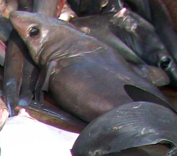 Crocodile sharks (Pseudocarcharias kamoharai) caught off Cochin, India (from FishBase).